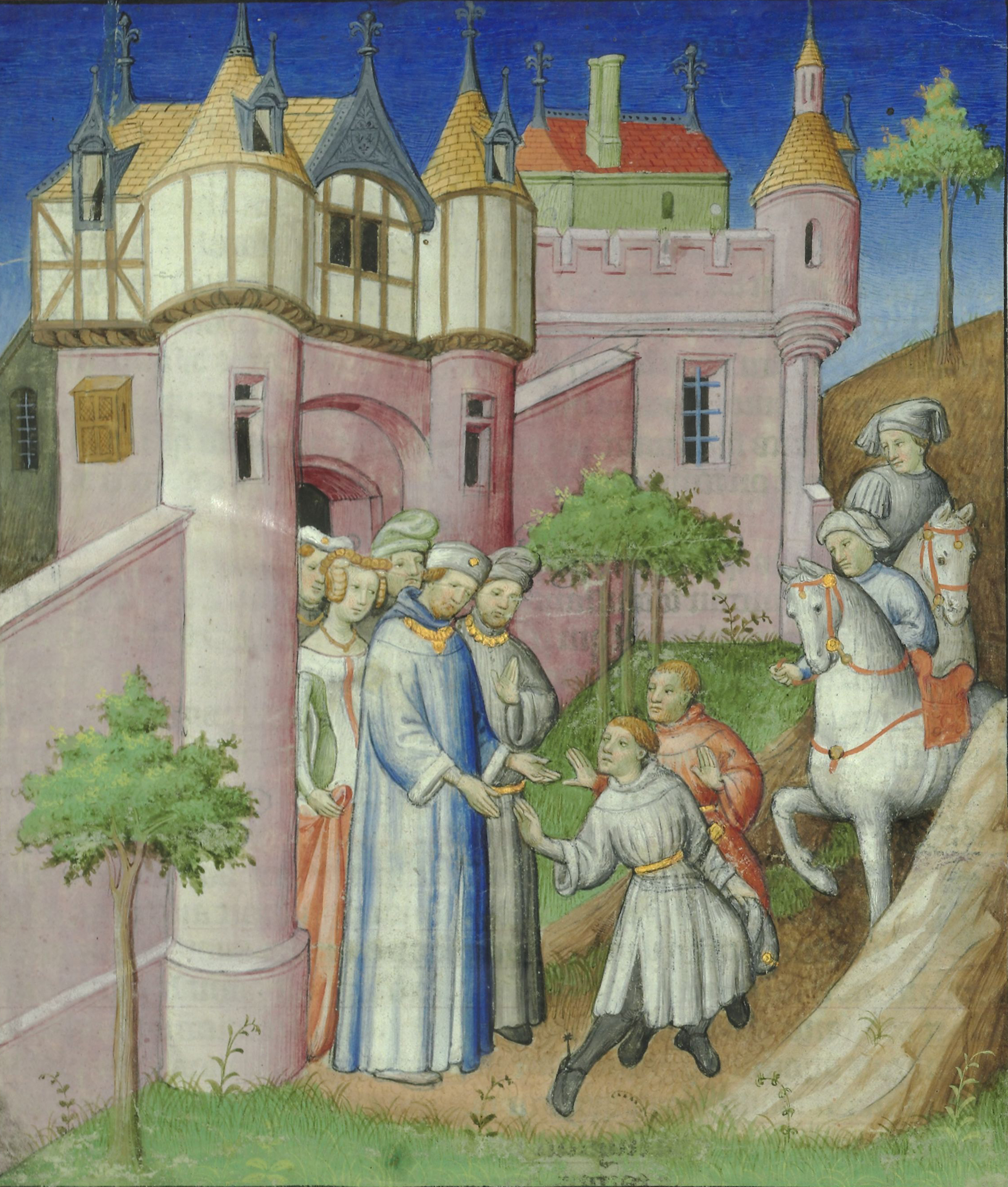 The Polos leaving Constantinople in 1259-1260. "Le Livre des Merveilles", 15th century.